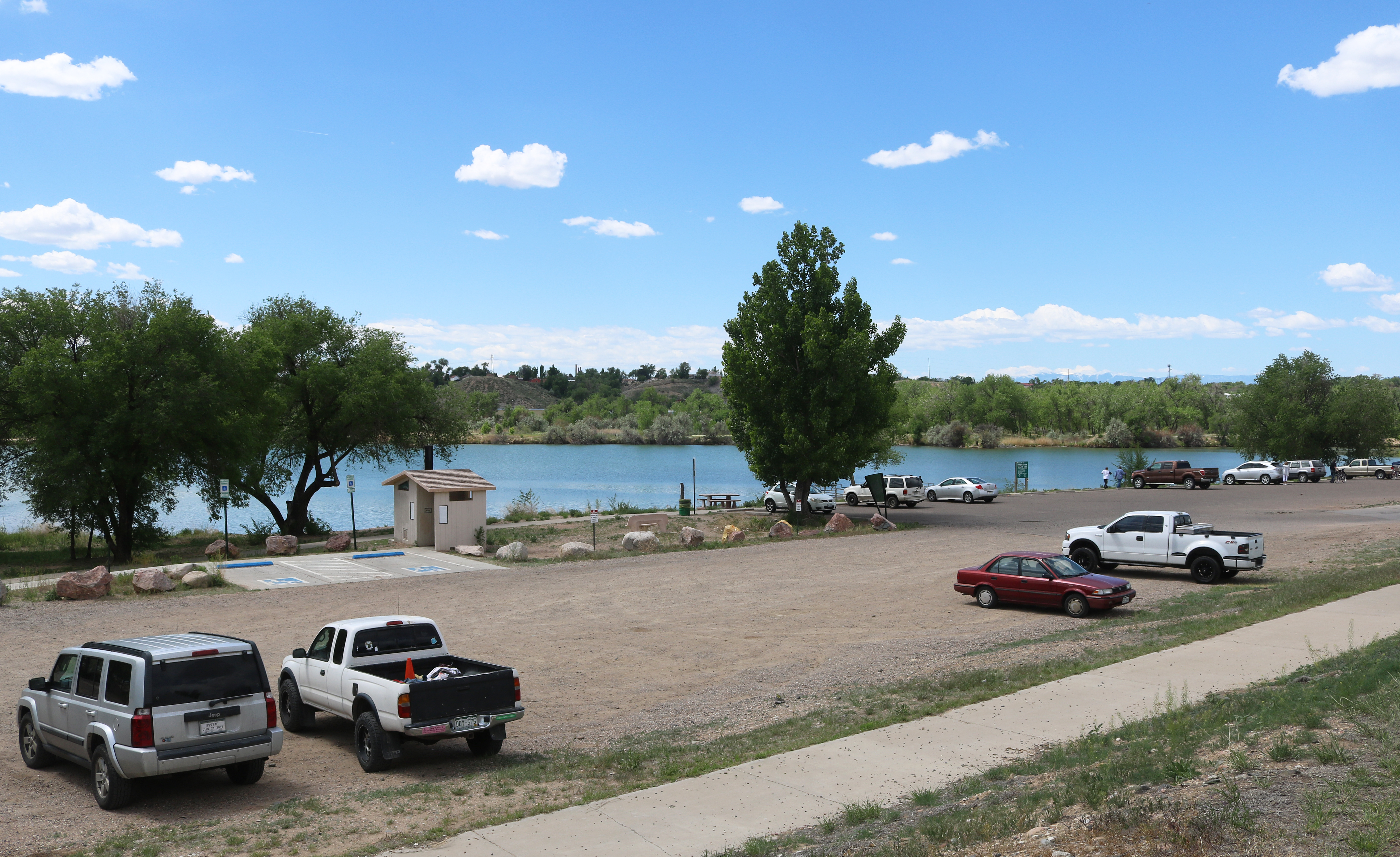 The parking area for the Runyon/Fountain Lakes State Wildlife Area in Pueblo, Colorado. The lake in the picture is Runyon Lake.